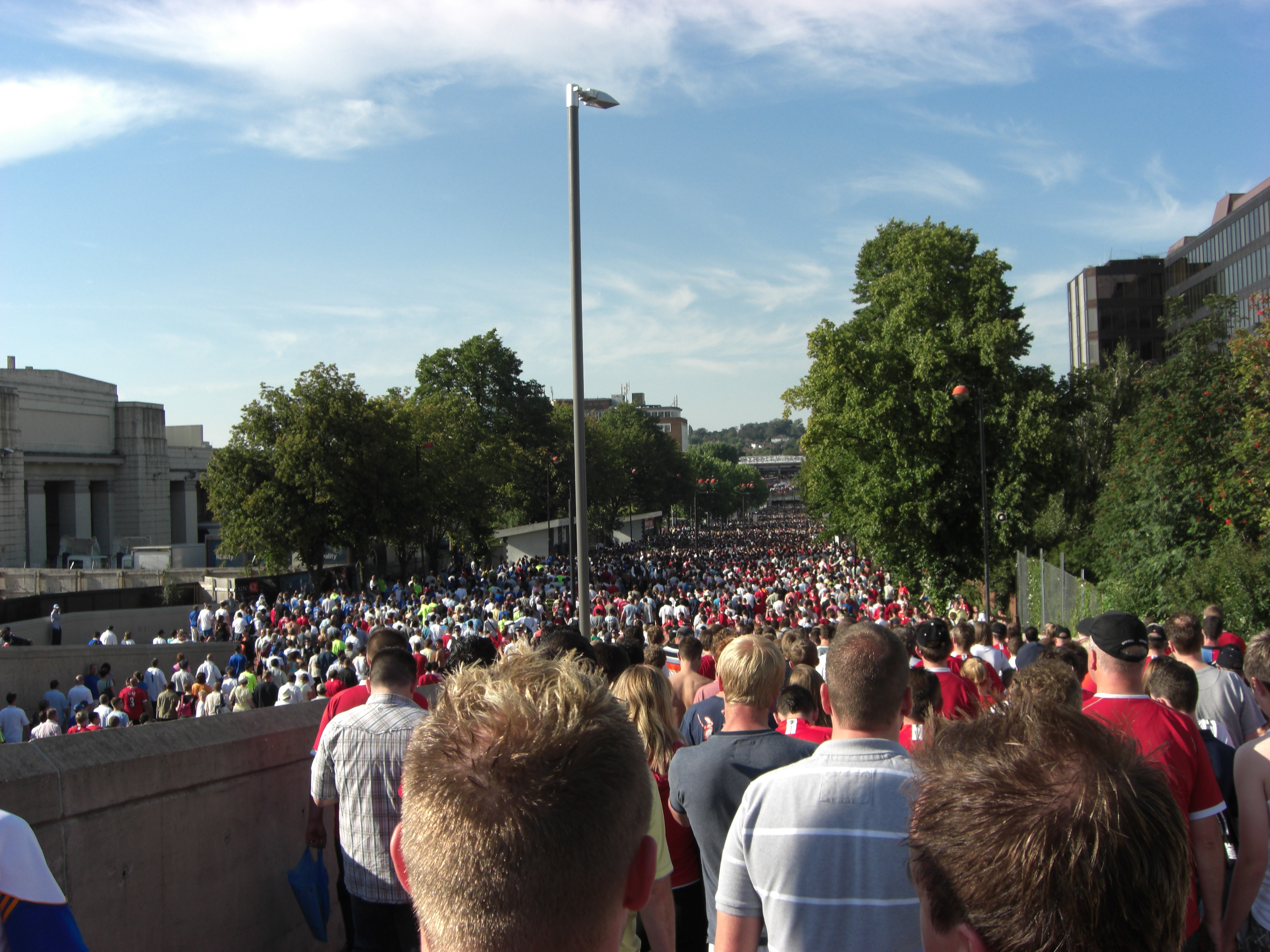 Manchester United vs Chelsea 1-1 (3-0 after panalties) - Community Shield at Wembley